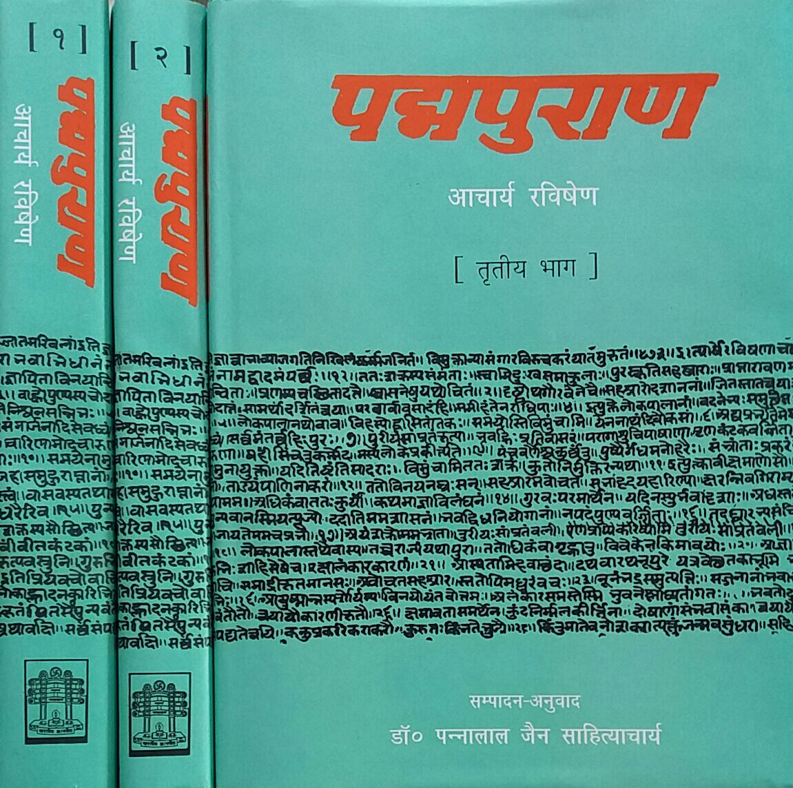 Book of Jainism